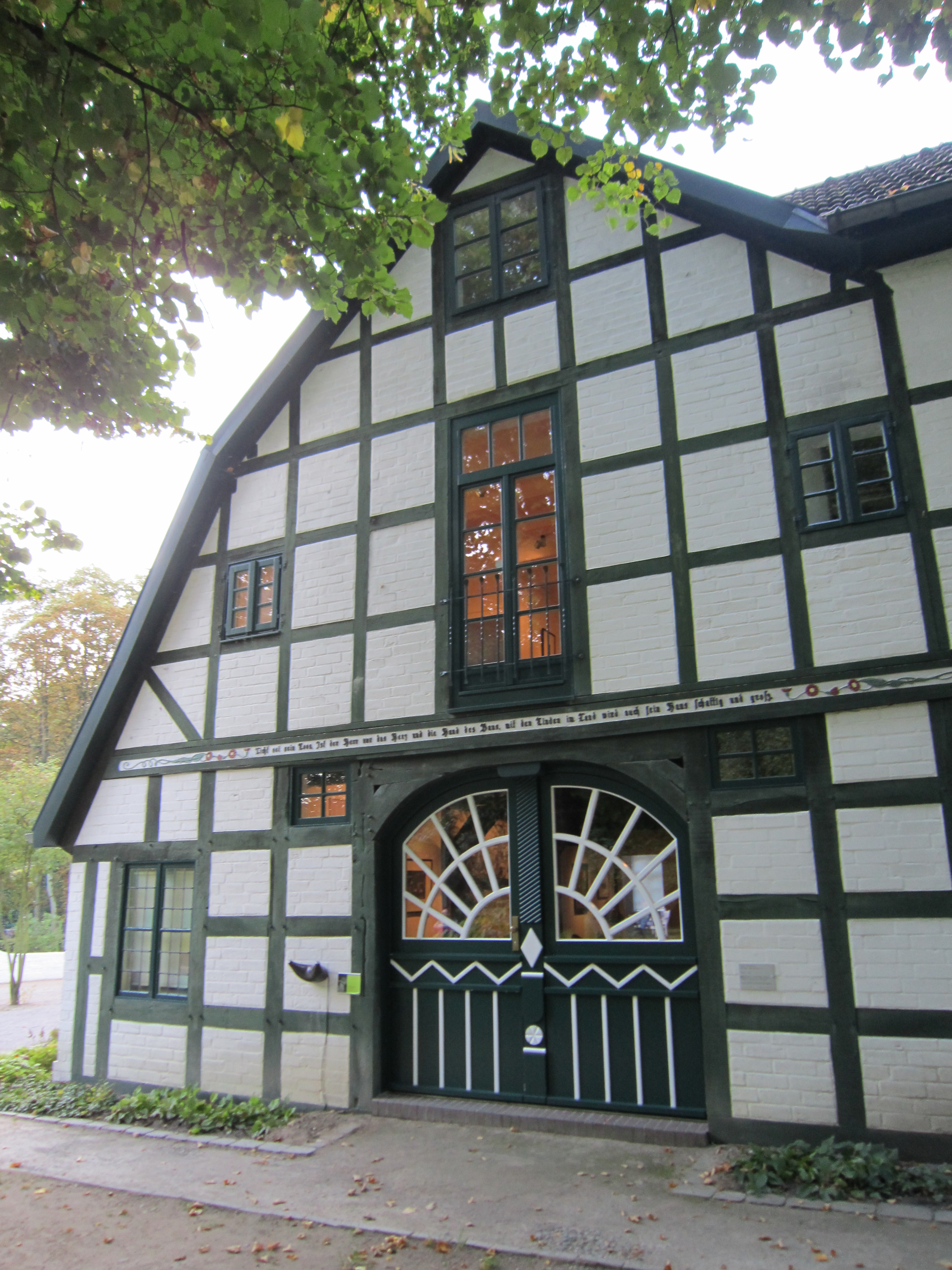 Timber framed northern wall of Barkenhoff in Worpswede. Above the door a poem by Rainer Maria Rilke, dedicated to Heinrich Vogeler: "Licht ist sein Loos, ist der Herr nur das Herz und die Hand des Bau's, mit den Linden im Land wird auch sein Haus schattig und groß." "Light is its fate, if only the Lord is the heart and the hand of the building, with the lime tree in the country his house will be shady and great."